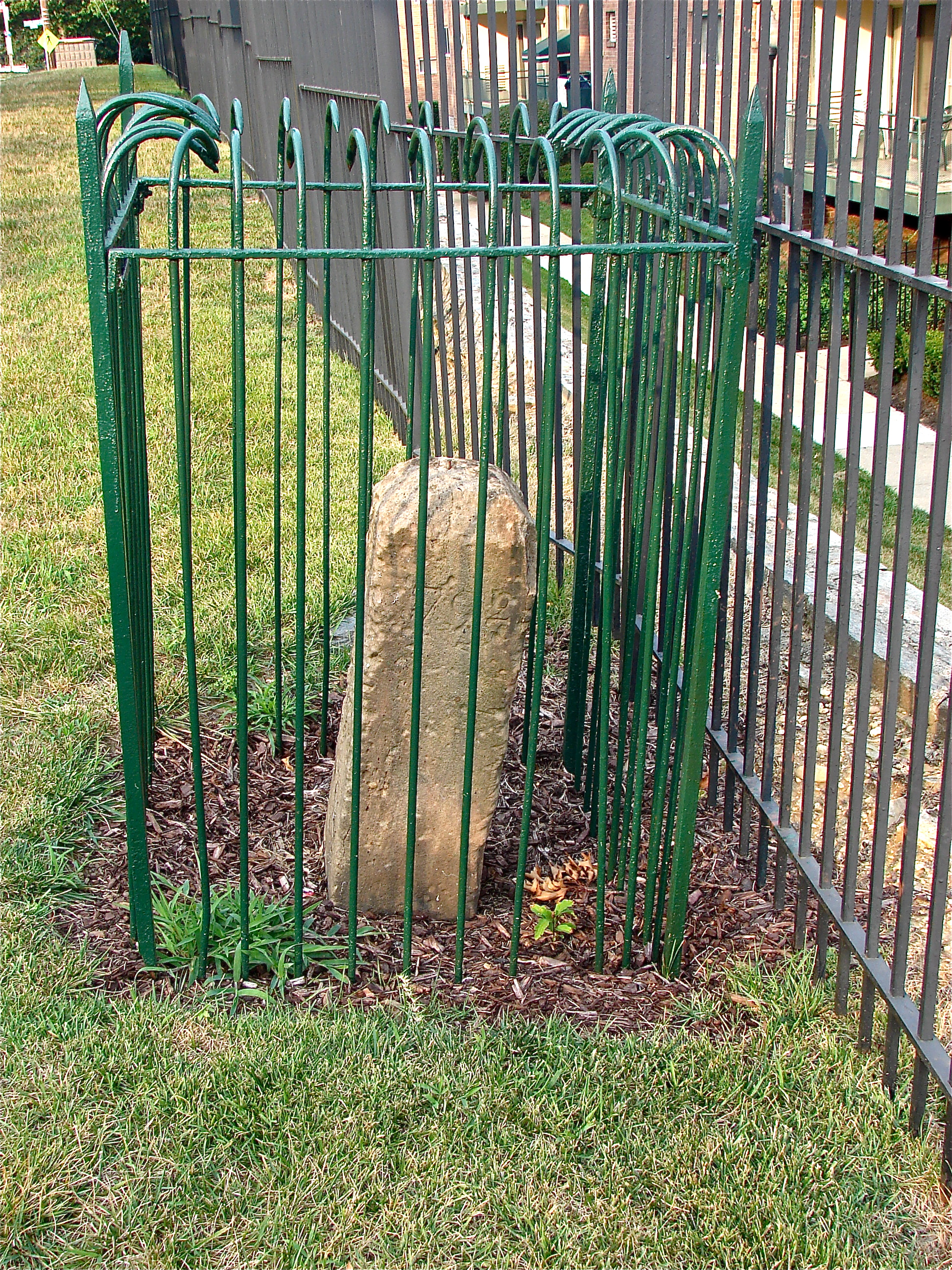 Southeast No. 3 Boundary Marker of the Original District of Columbia on the NRHP since November 1, 1996, across the street from 3908 Southern Ave., Washington D.C., also in Prince George's County, Maryland.